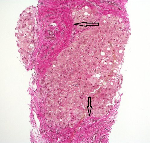 Hematoxylin and Van Gieson's stain showing steatohepatitis with established cirrhosis, with thick bands of fibrosis (arrows) encircling a hepatocyte nodule.